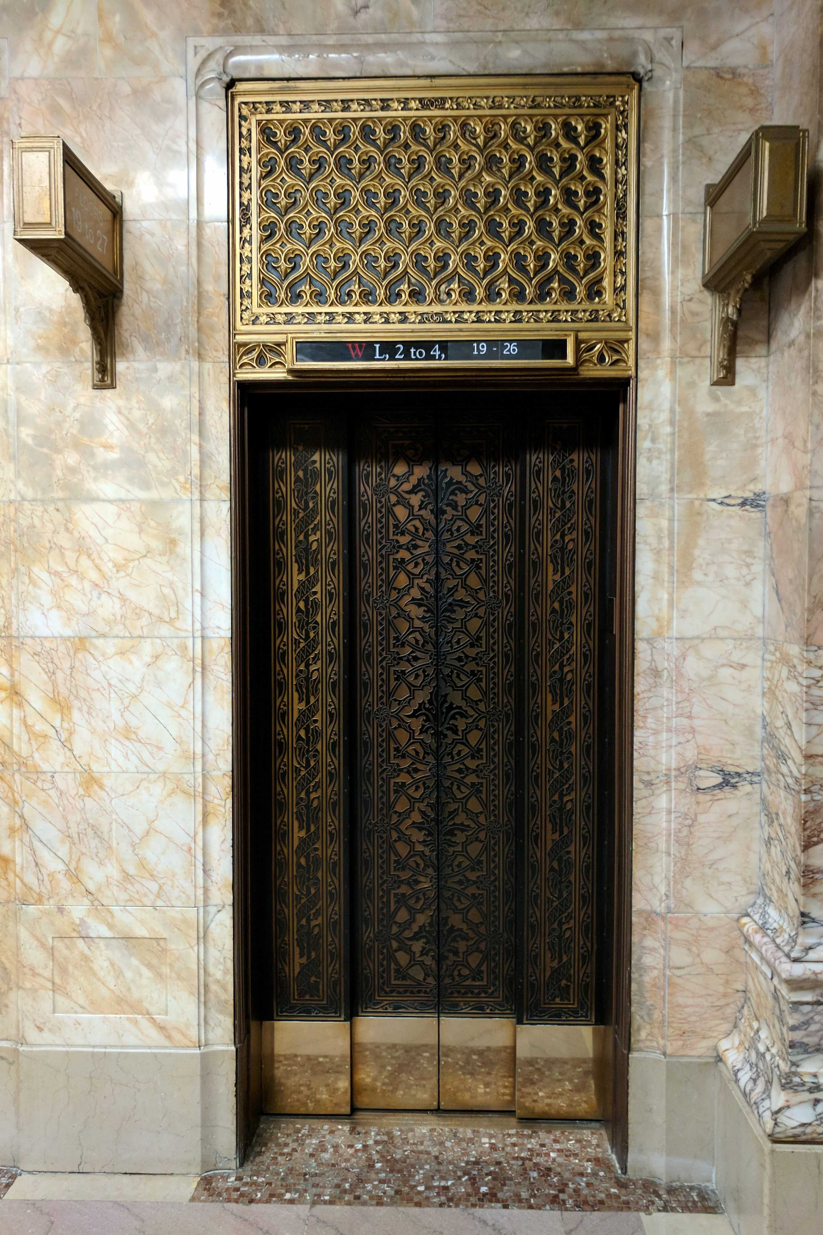 Woolworth Building Elevator Site: Woolworth Building